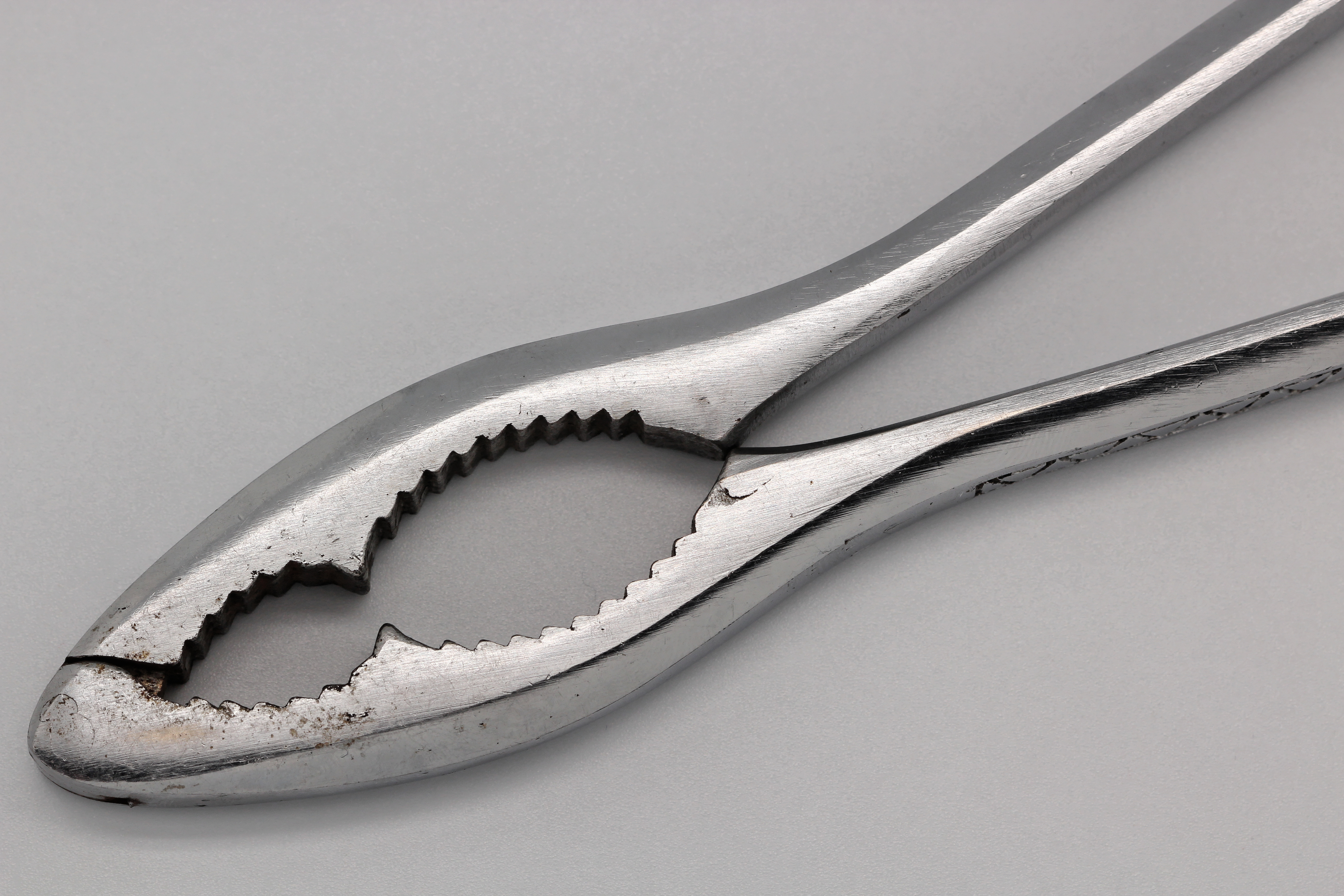 Nutcracker